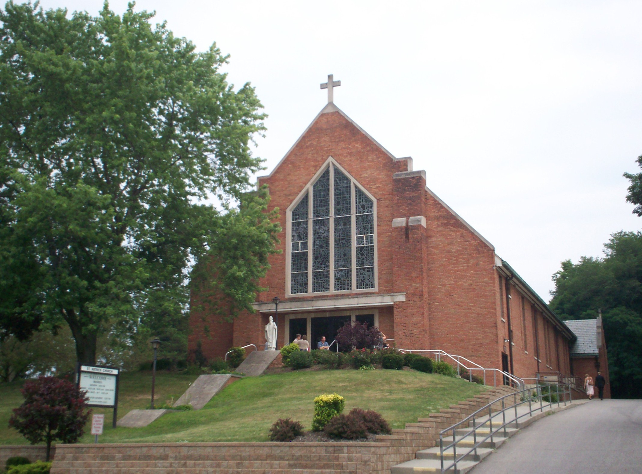 Front view of St. Patrick Church in Kent, Ohio. St. Pats is a Roman Catholic Parish that is part of the Diocese of Youngstown. It was established in Kent in 1850 and this building was dedicated in 1953, replacing a previous church that was built in 1868. The parish also includes a K-8 school located on an adjacent side street on the location of the original church.